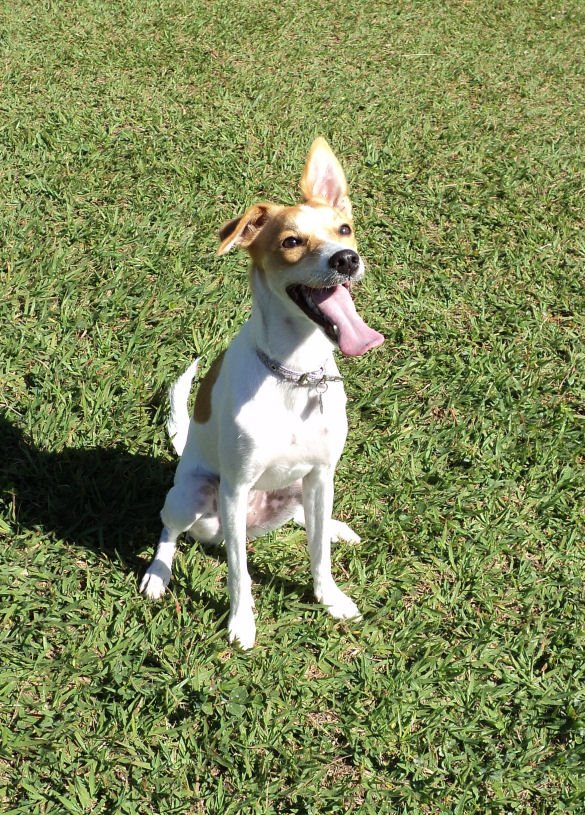 Crossbreed dog, around 1 year old.